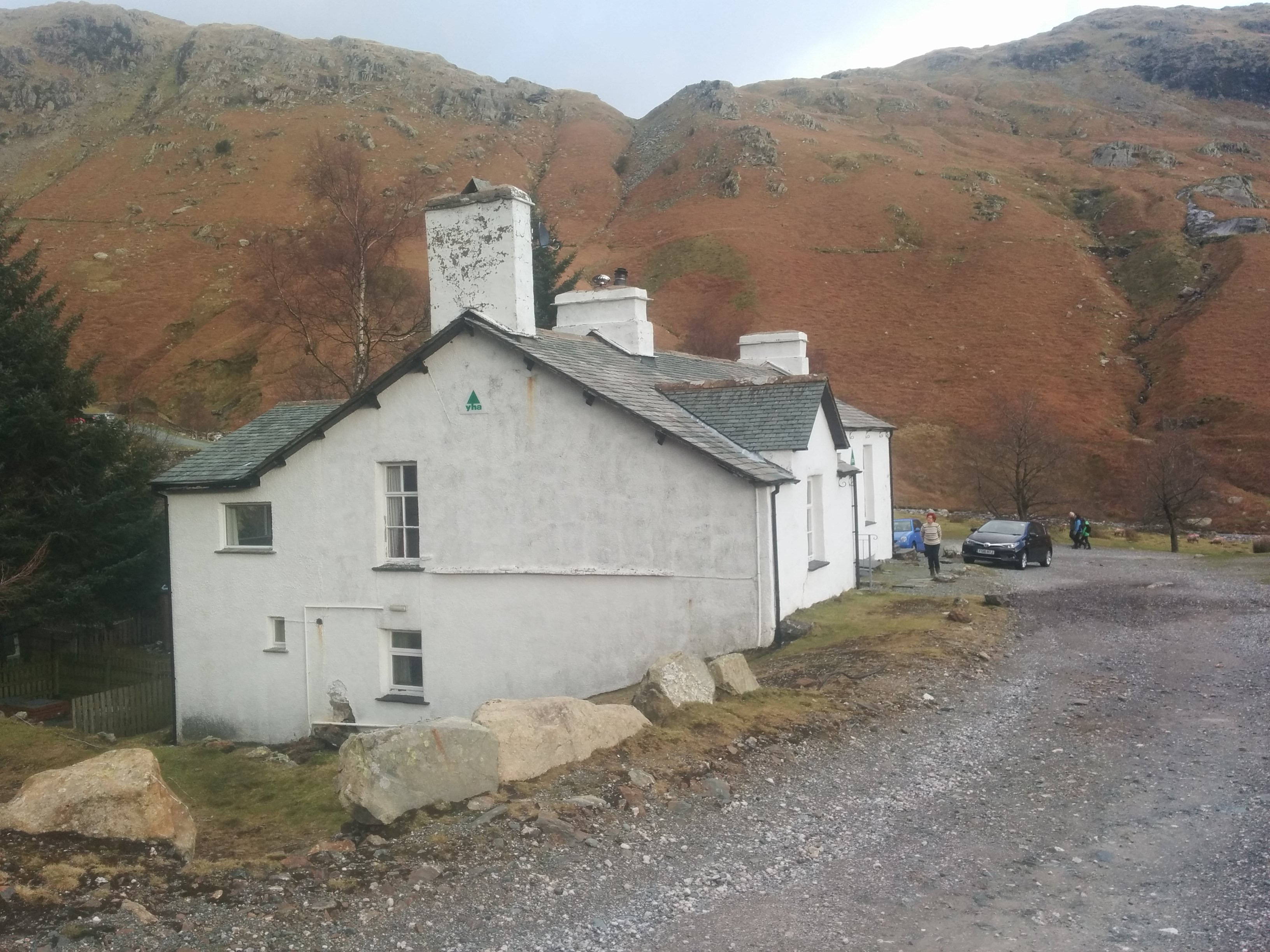 Coniston Coppermines Youth Hostel in Xmas 2016